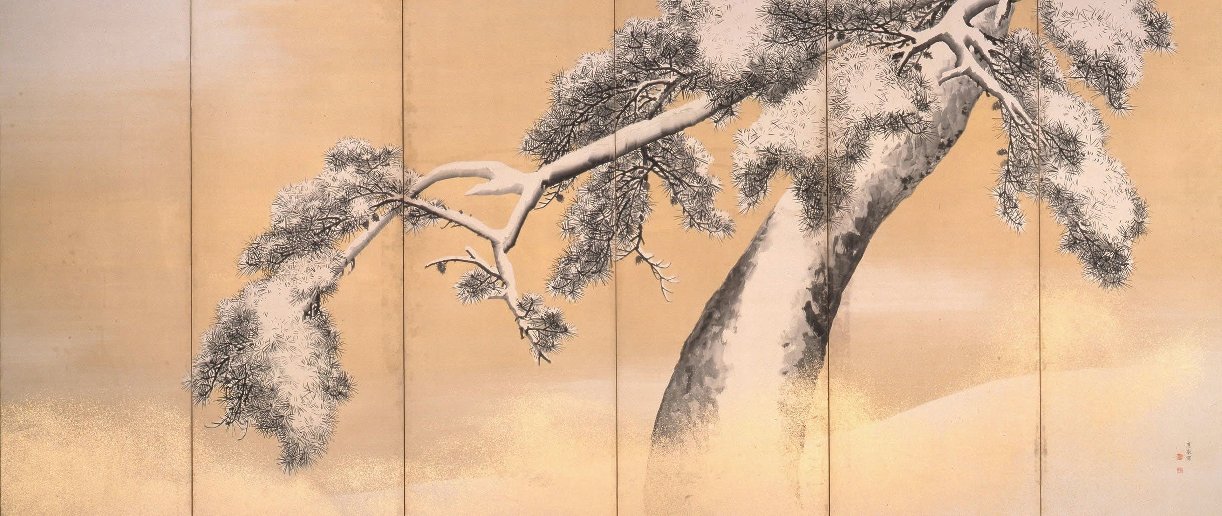 right folding screen